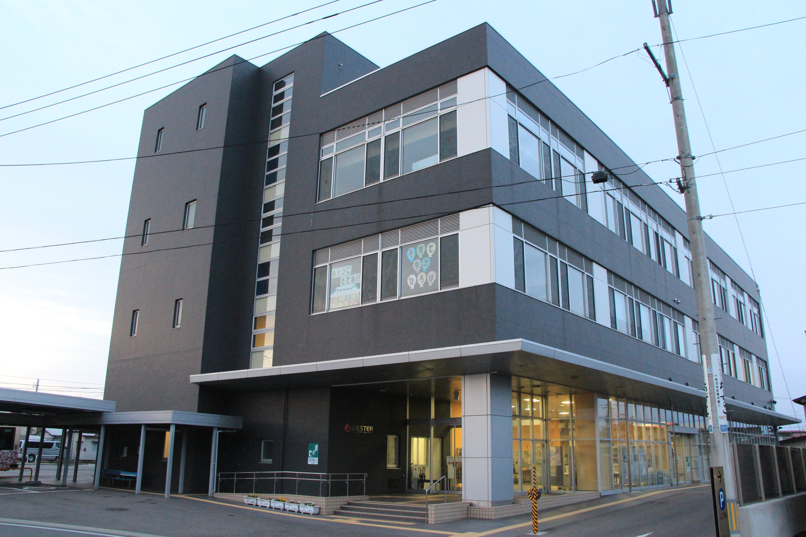 Akita city West Citizen Service Center (WESTER), taken on April 30, 2013.